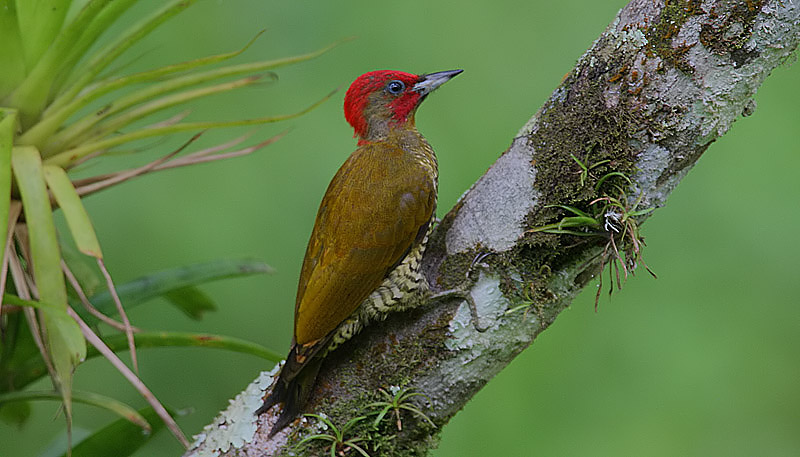 An adult male. Image taken on the slope of the Arenal Volcano, Costa Rica.